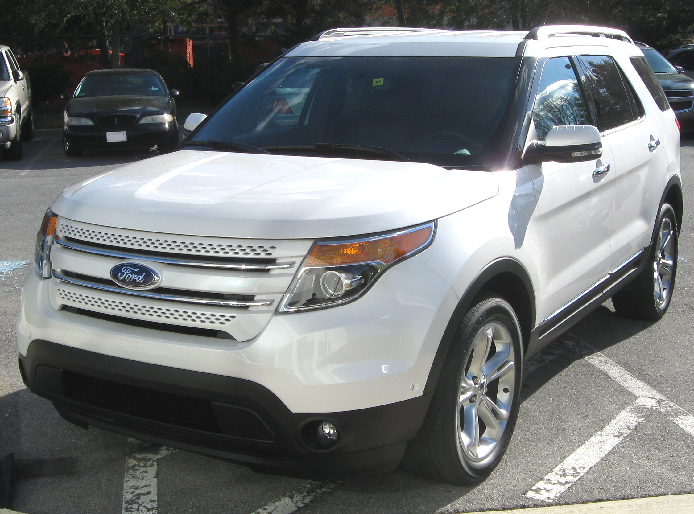 2011 Ford Explorer photographed in Upper Marlboro, Maryland, USA.